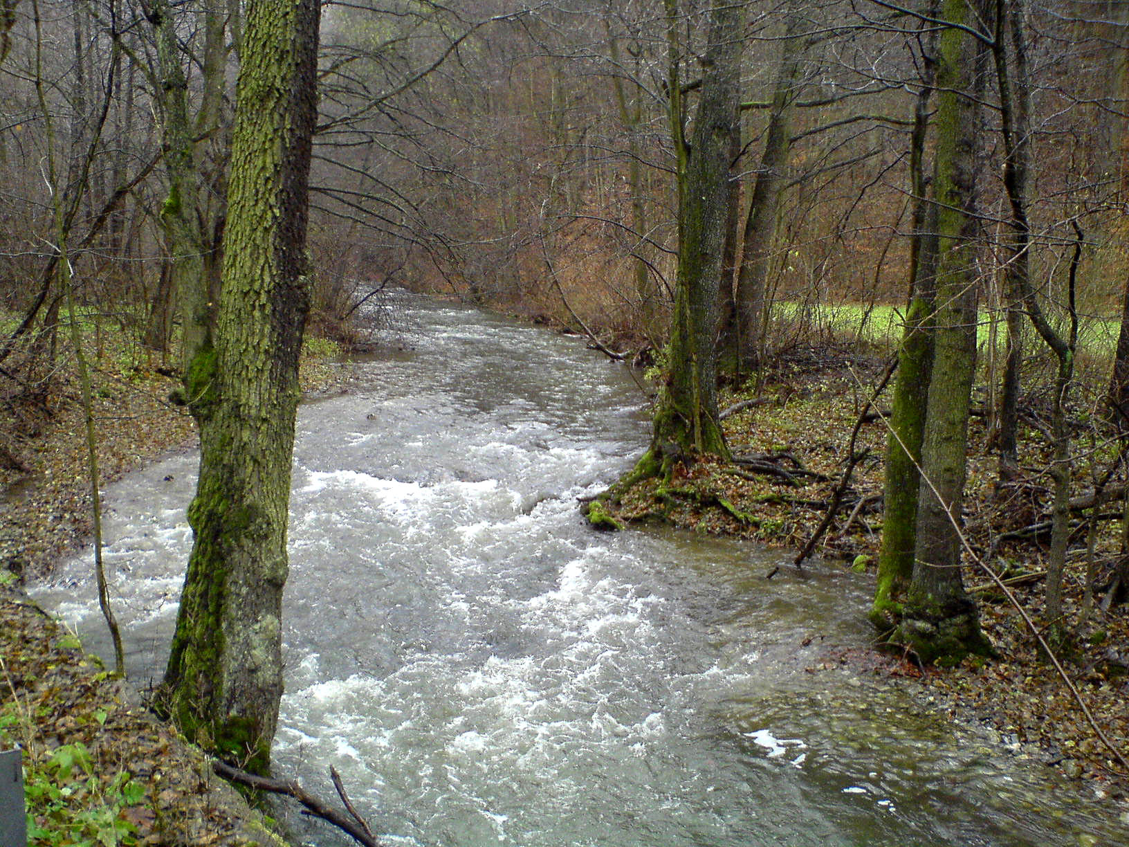 Punkva River in Moravian Karst (Moravský kras) protected area, Czech Republic